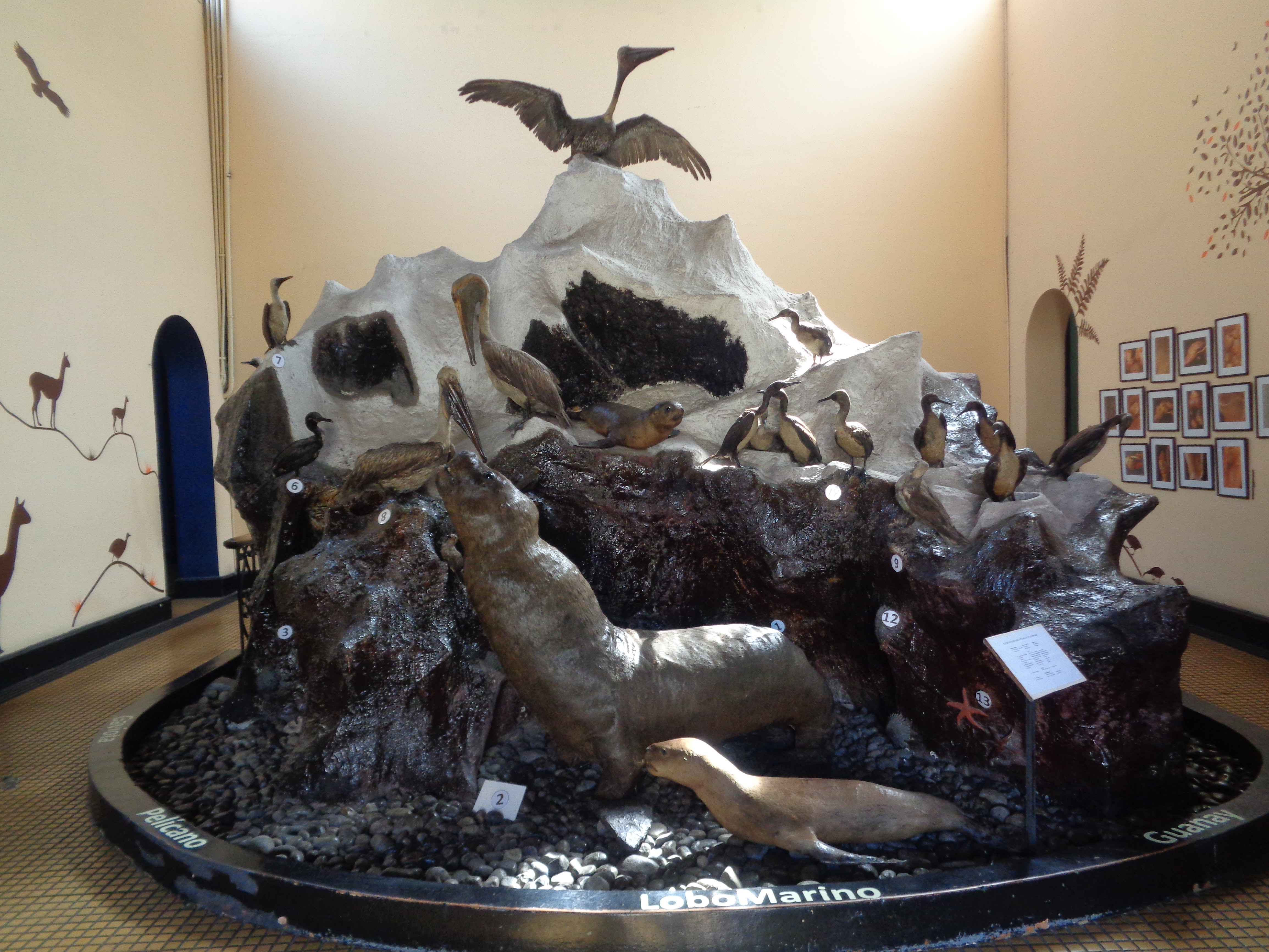 Marine area at the Museum of Natural History in Lima